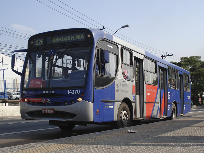 CAIO bus (reg. OTB-1214, #14.170) with Volkswagen Volksbus 17-240 OT chassis in Brazil. Viação Cidade Verde.